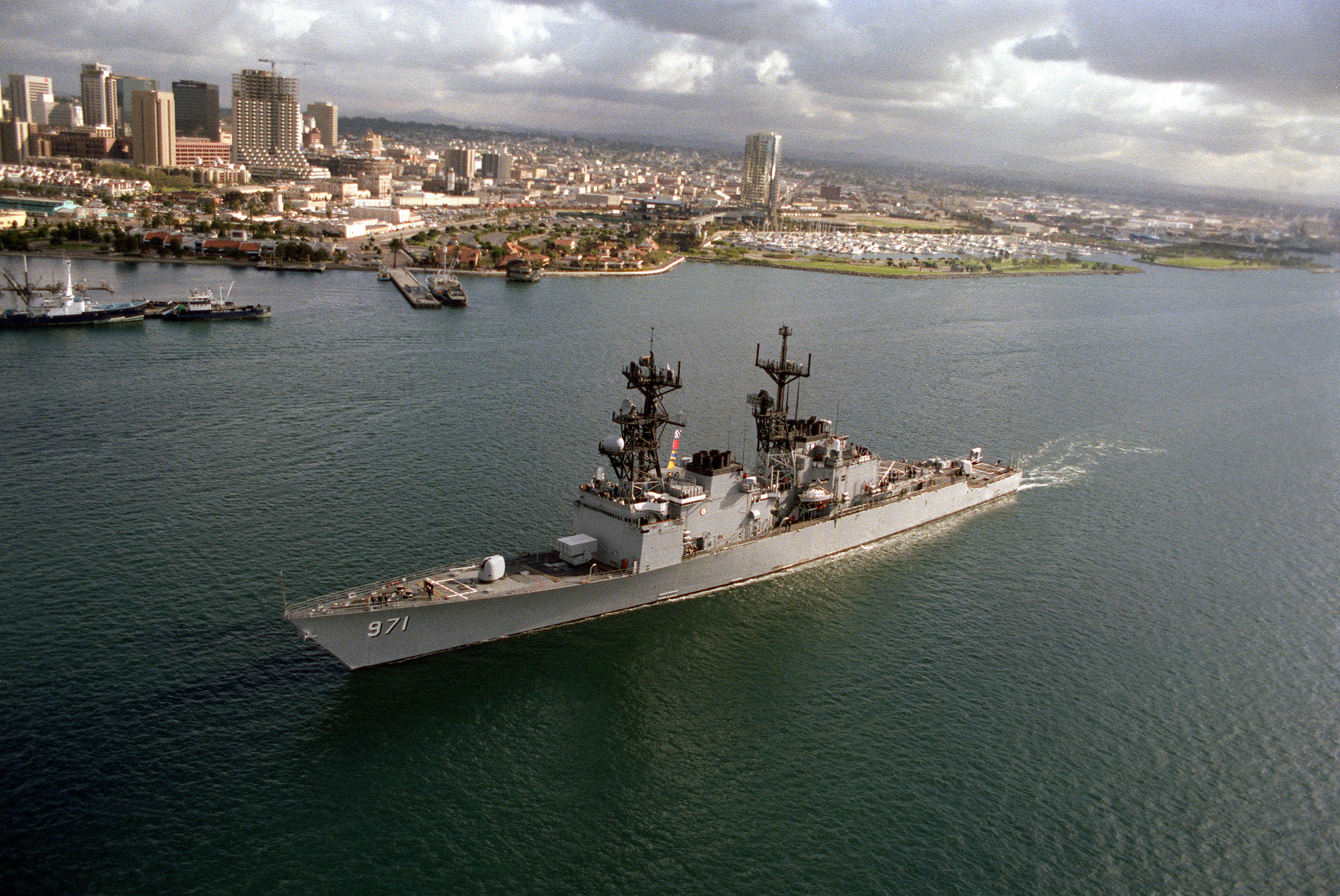 A port bow view of the destroyer USS DAVID R. RAY (DD-971) underway. Location: SAN DIEGO, CALIFORNIA (CA) UNITED STATES OF AMERICA (USA)